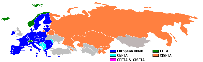 Free trade areas in Europe.